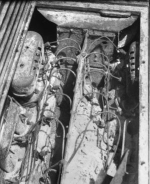 Cape Boram, Wewak area, New Guinea - View from above of the engine in an armoured recovery variant of the medium type 97 Chi Ha tank, which was captured on the beach. Army workshops, the tank regiments and the Intelligence Section of 6 division are interested in this tank, for they have not previously seen this particular type and have no record of its manufacture. The picture was taken at the request of G Armoured Corps, Corps of Electrical and Mechanical Engineers, Land Headquarters.